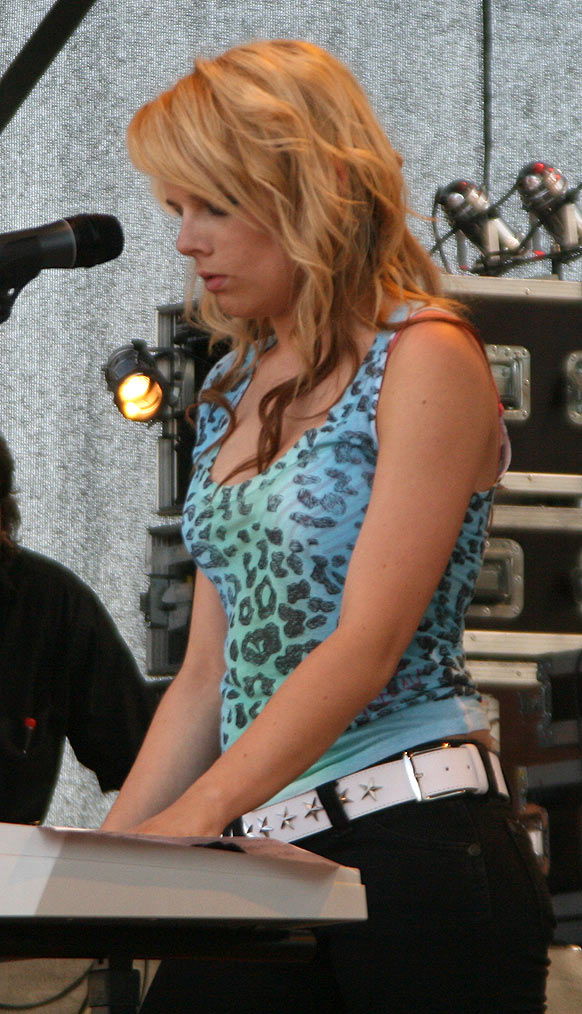 Michelle Luttenberger of the Austrian band Luttenberger*Klug at the Donauinselfest 2007